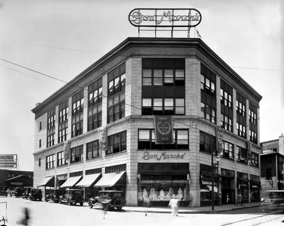 Bon Marché 35th Anniversary Sale, Asheville, North Carolina